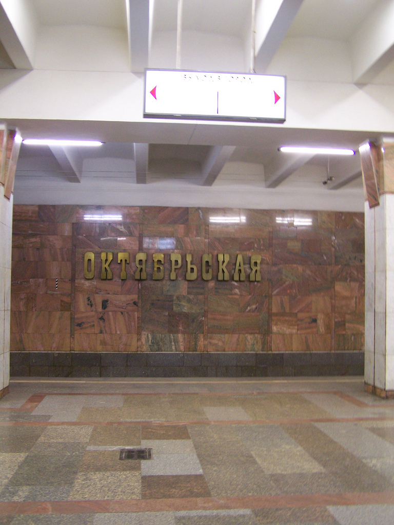 Oktyabrskaya (Novosibirsk Metro)